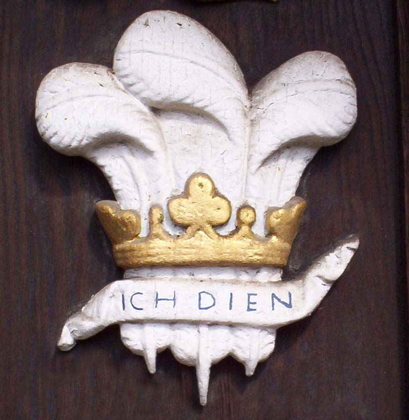 Photograph of a painted carving of the Prince of Wales' 'three feathers' on the main gate of Oriel College, Oxford. A ribbon below the coronet bears the motto Ich dien (German for "I serve", a contraction of ich diene).